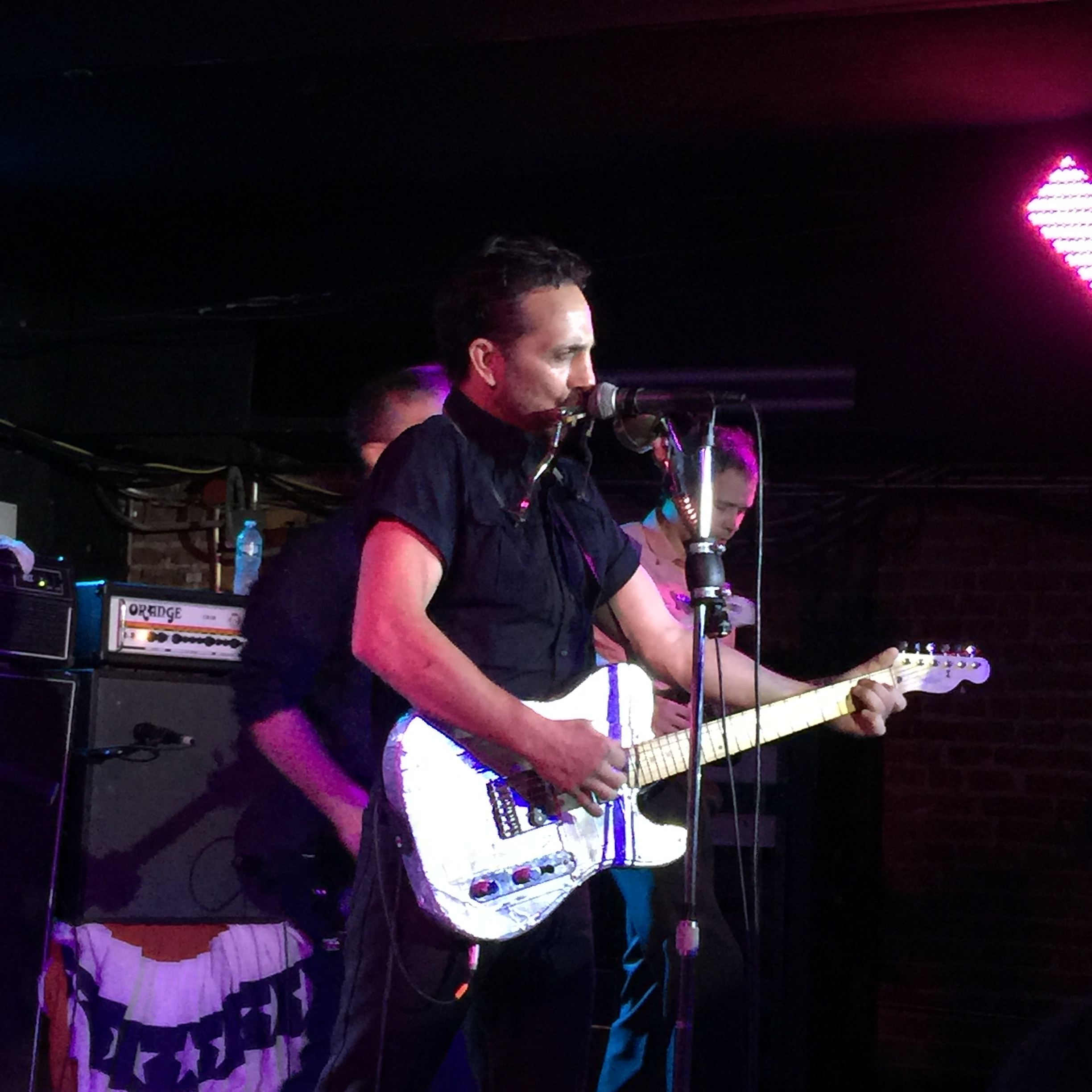 Ike Reilly and his band, The Assassination, performing live at Mercury Lounge, NYC in July 2015.